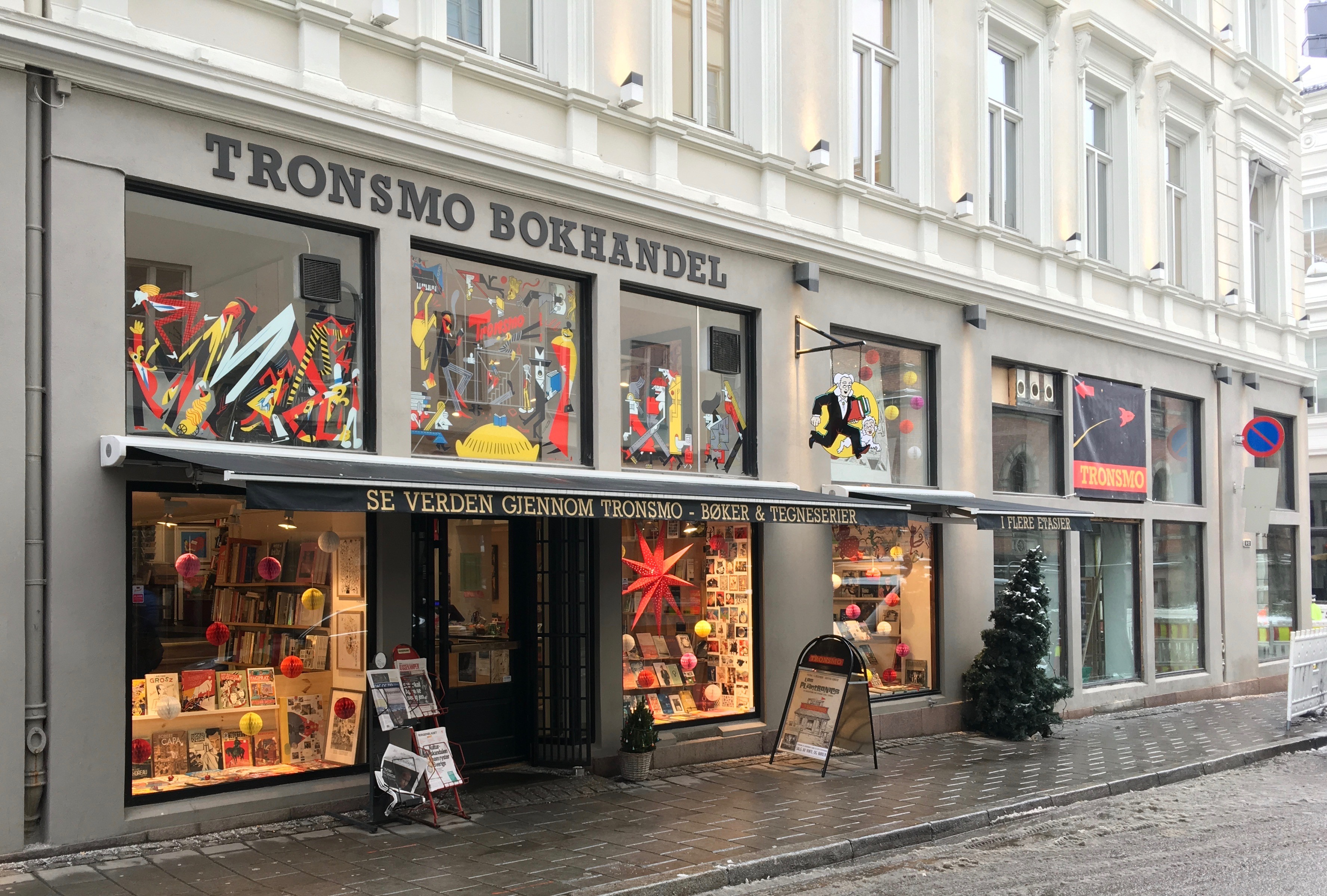 Tronsmo Bokhandel, a book store for booka and comics, in Universitetsgata in Oslo, Norway. Window decorations by Lars Fiske and Bendik Kaltenborn. December 14th, 2017.